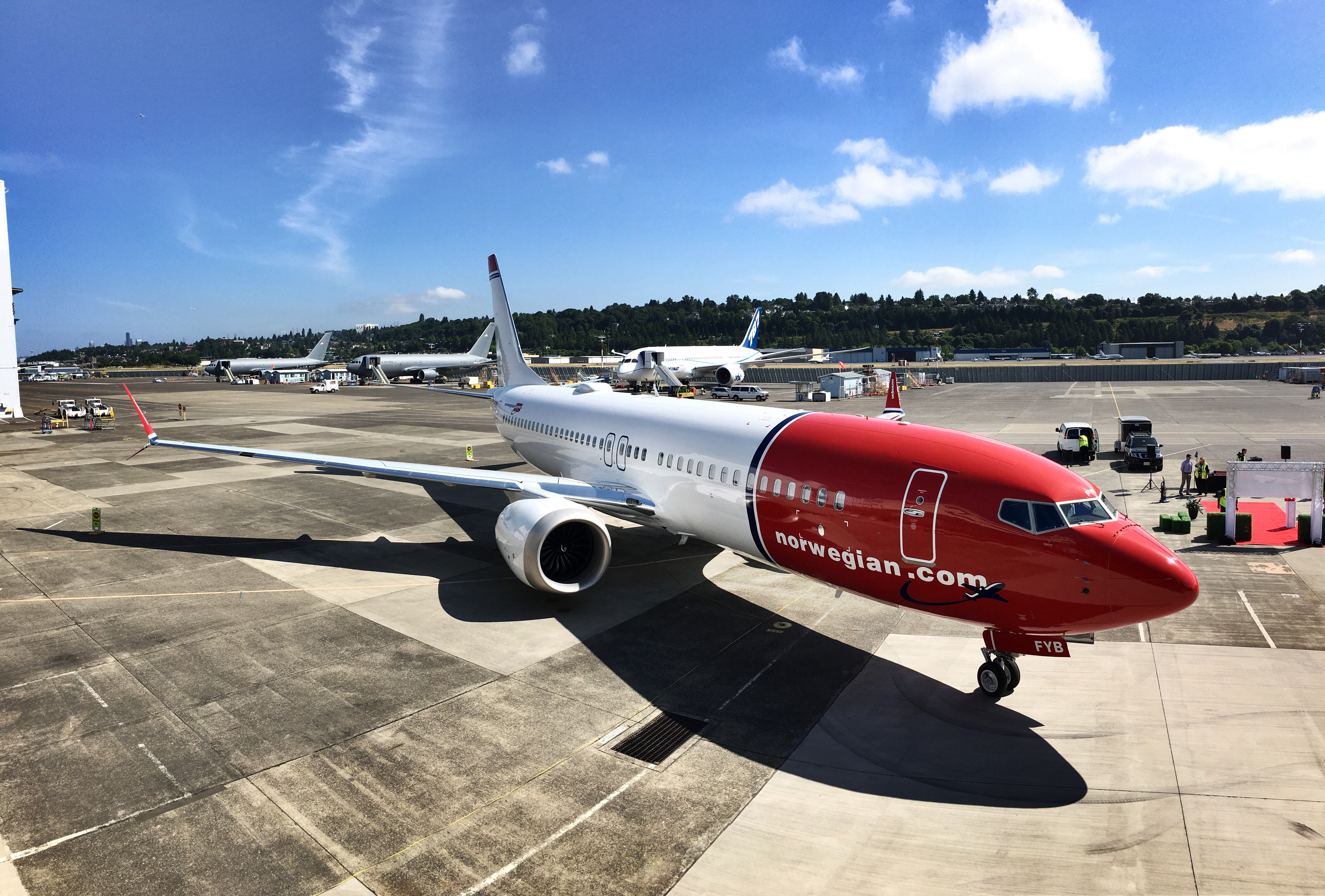 Norwegian's 2nd 737 Max 8 (EI-FYB)